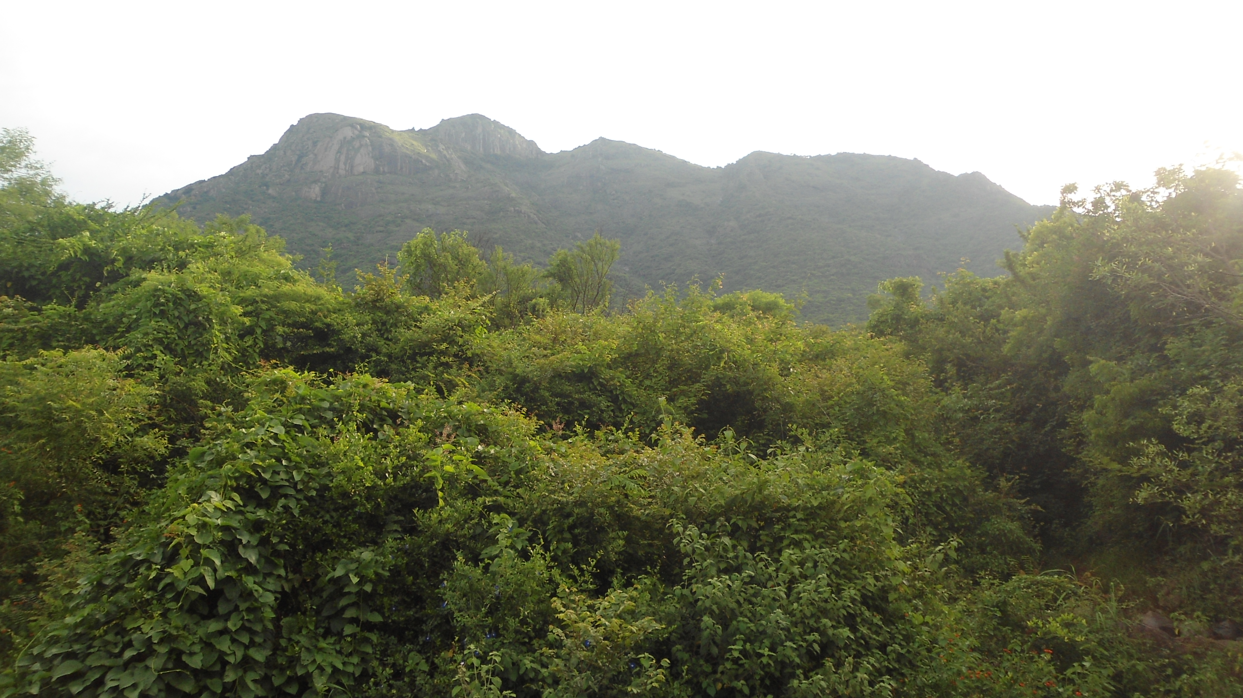 India,TamilNadu, Coimbatore